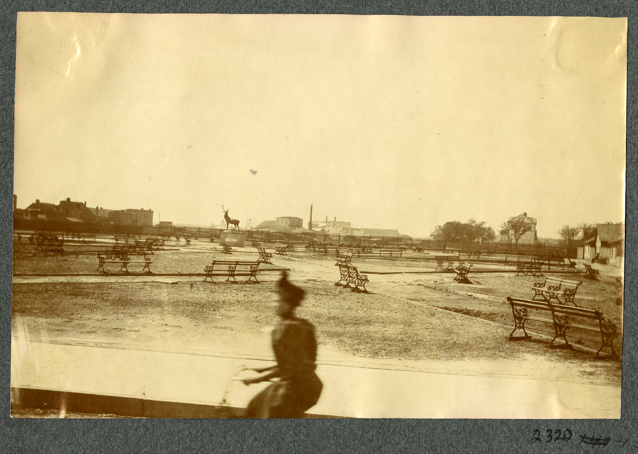 Cannon Park in Charleston, South Carolina was photographed looking west from Rutledge Avenue between 1896 and 1900.